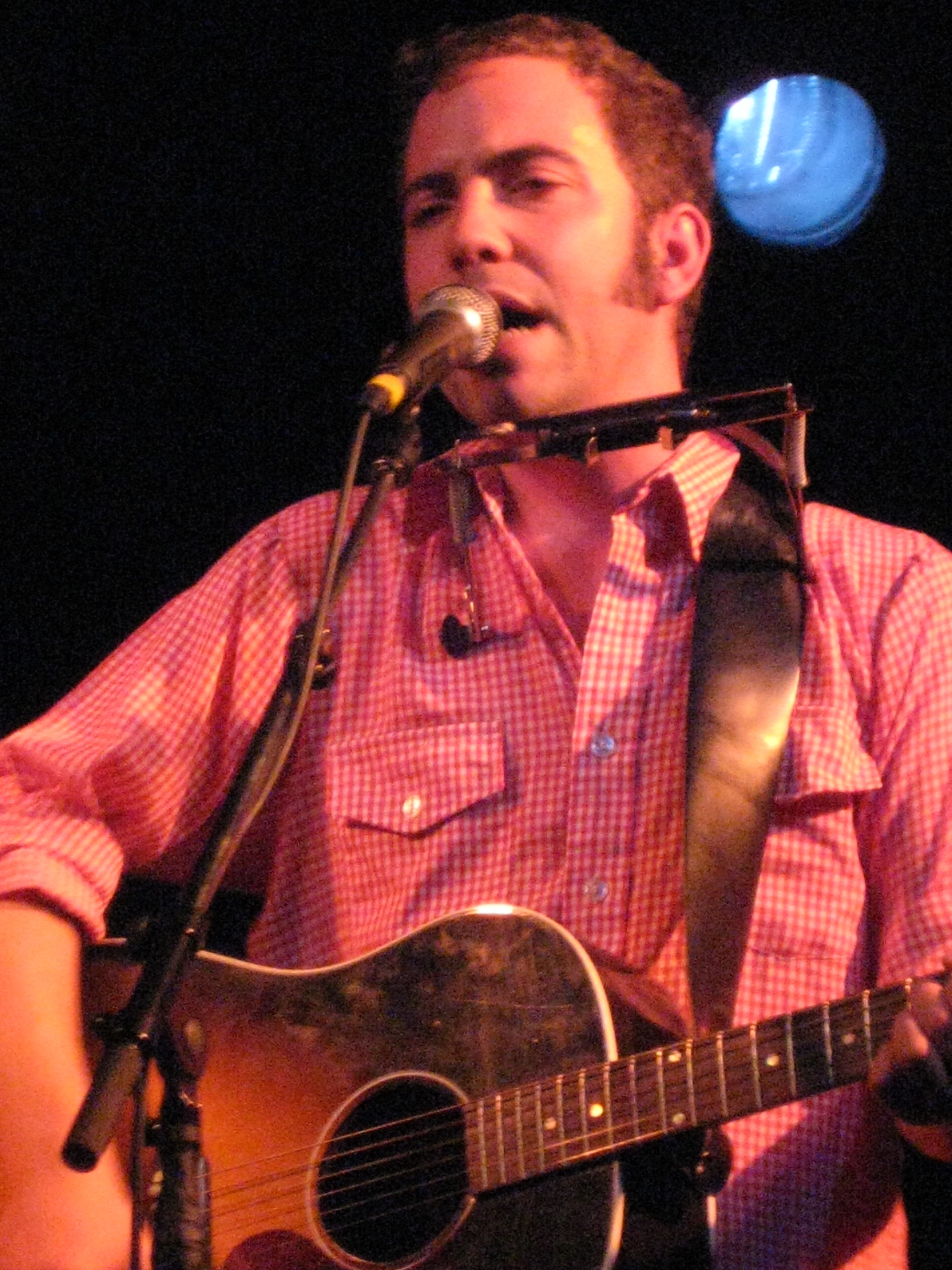 Justin Rutledge performing at the 2007 NXNE festival in Toronto